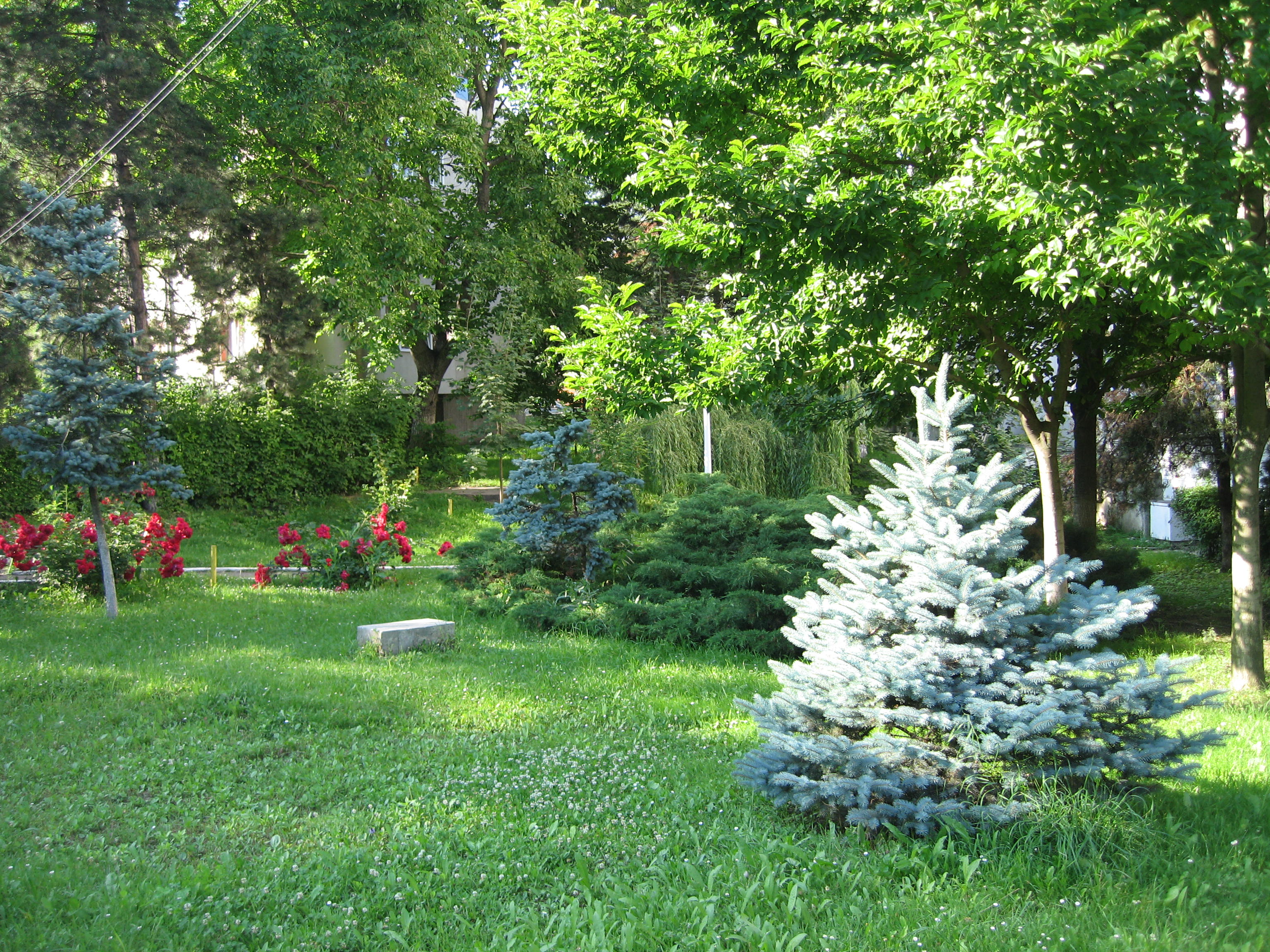 Initial location of Statuary group of Brâncoveanu Family in Roses Park in Suceava.